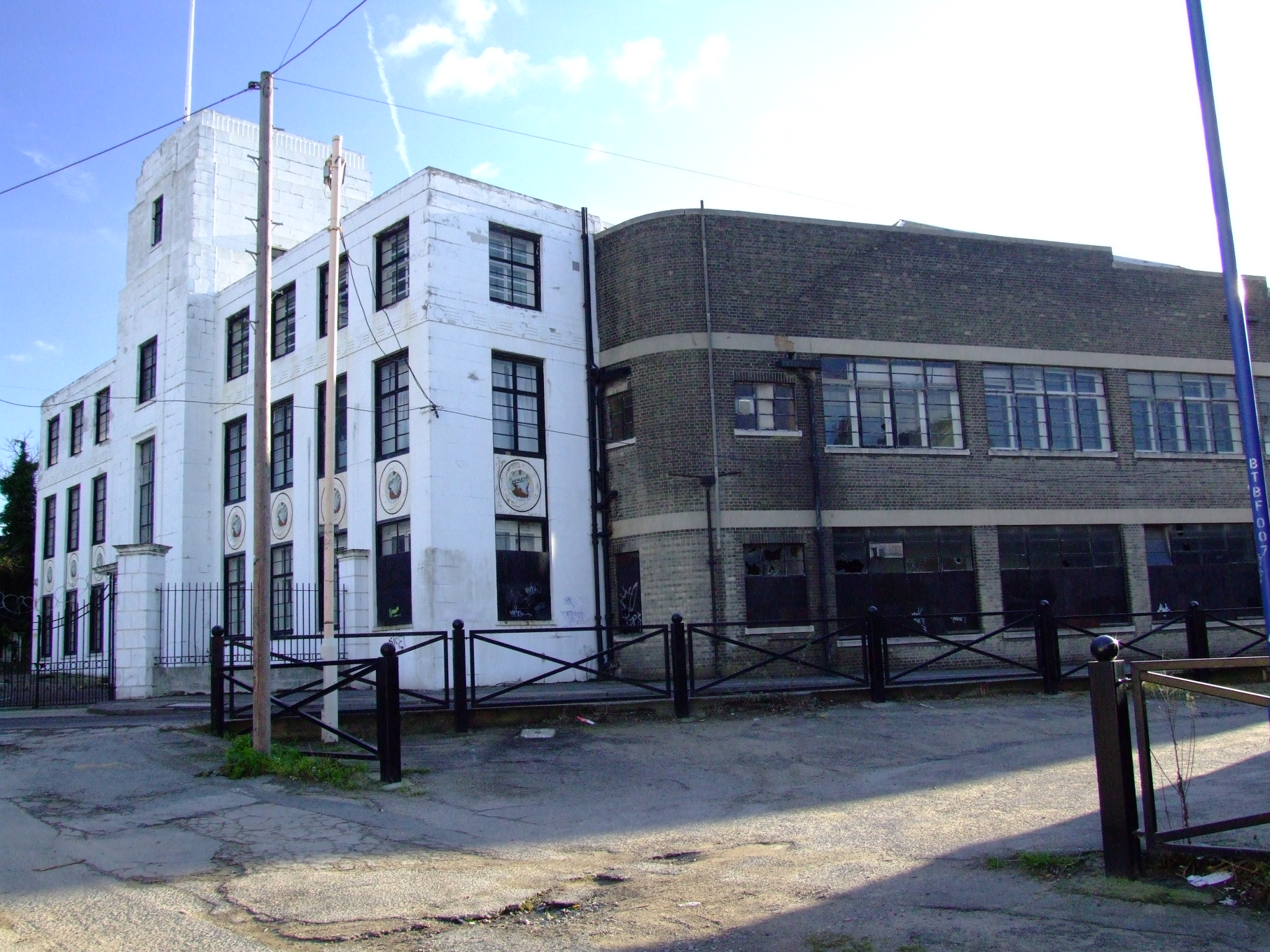 Northfleet merges with Gravesend in Kent. It is on the River Thames estuary. The shore has been excated for chalk, and heavy industry used the recovered land.. WTHenley building- sometimes known as the cable works. built on the site of Rosherville Gardens. s - Google Maps - Google Earth